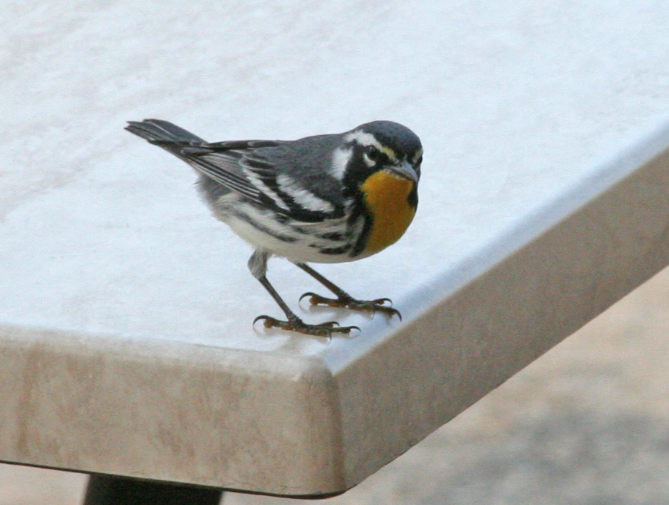 Yellow-throated Warbler in Cuba.